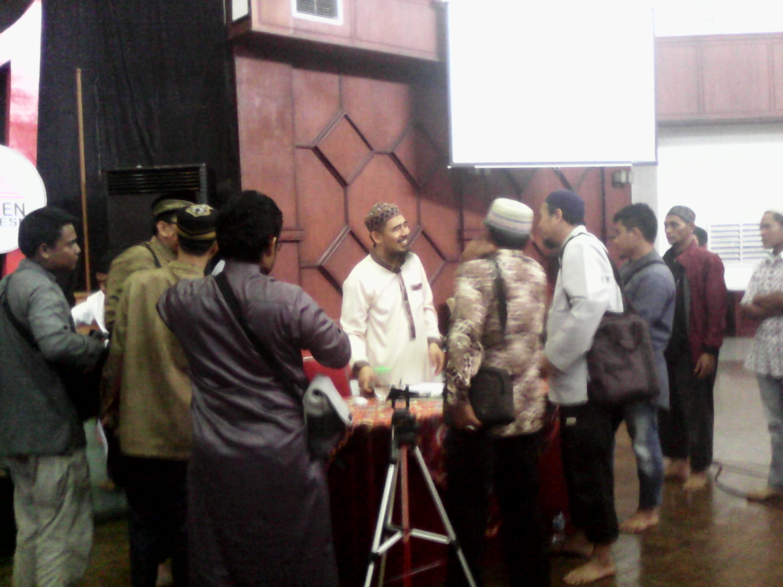 Ustaz Muhammad Elvi Syam (middle, smiling) shortly after finishing giving a lecture on the method prayer of the Prophet Peace be Upon Him at the PT Semen Padang Multipurpose Building, January 28, 2018.